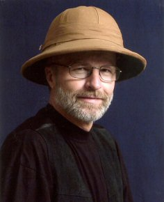 Photo of Professor Arvi Hurskainen in 2002, University of Helsinki